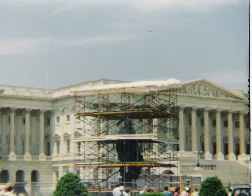 Washington, D.C. Freedom statue during its 1993 restoration. The statue was removed from the Capitol dome from May to October.